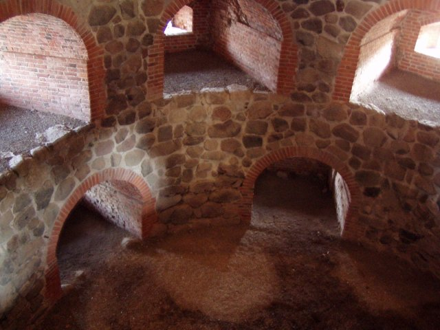 Interior of Häme Castle in Hämeenlinna, Finland.